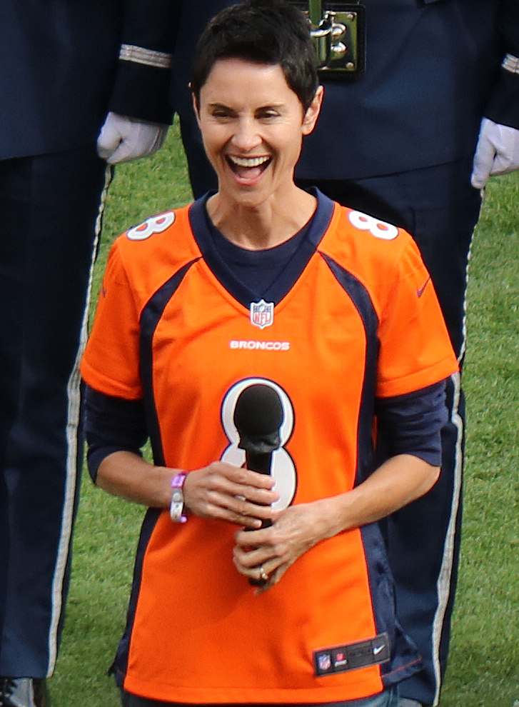 Actress Beth Malone getting ready to sing The Star-Spangled Banner before a football game between The Denver Broncos and the San Diego Chargers on October 20, 2016 at Mile High Stadium in Denver, Colorado.